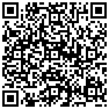 QR code for Wikpedia in Serbian language.